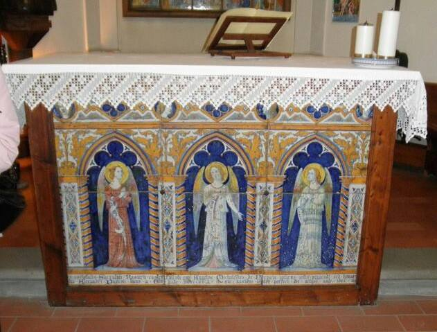 vedi filename